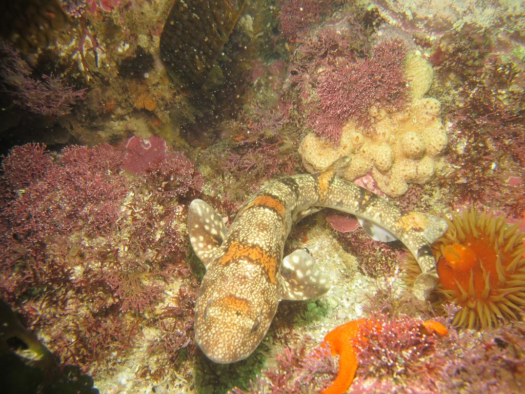 Puffadder shyshark (Haploblepharus edwardsii) in False Bay, Cape Town